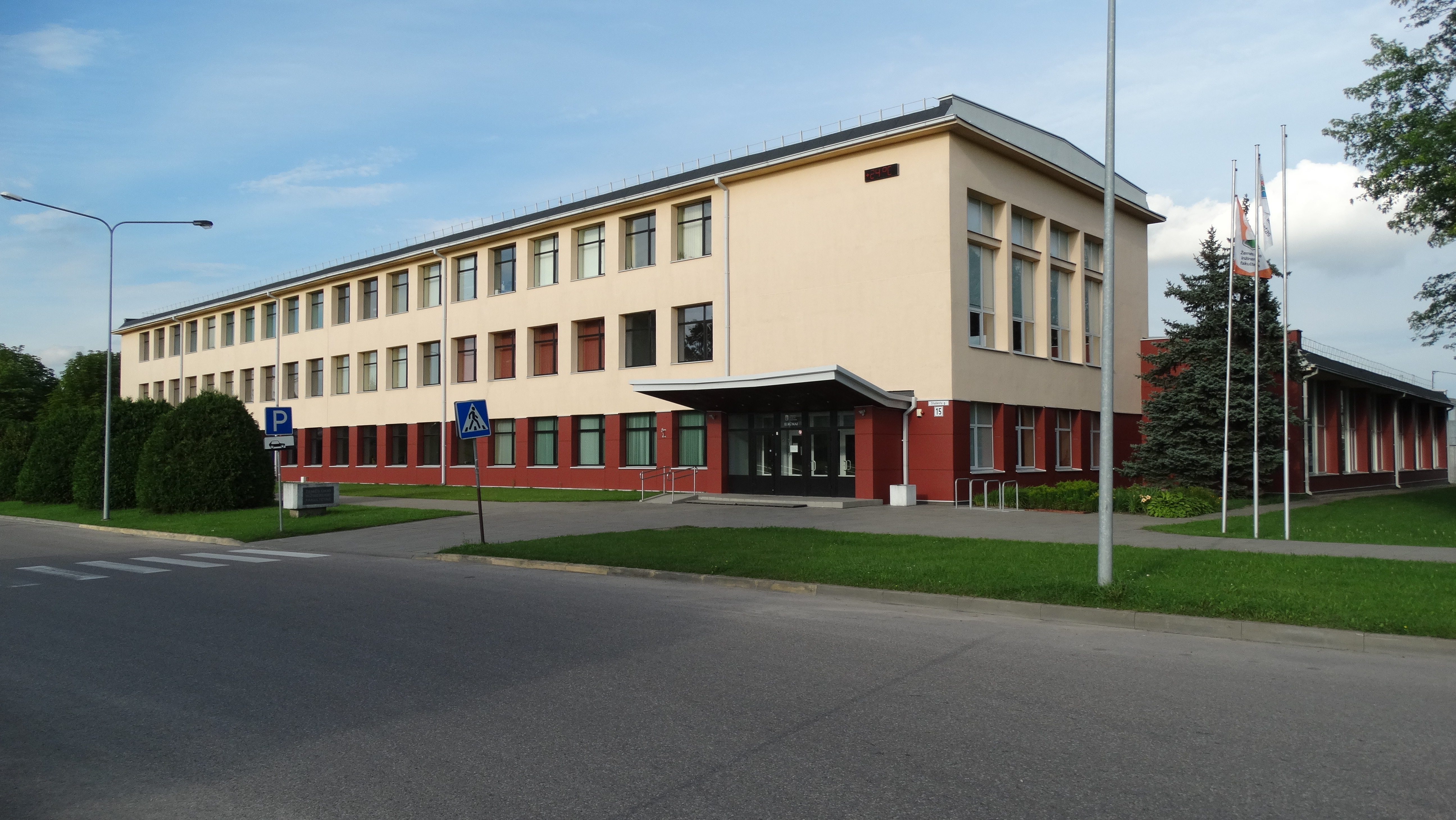 Aleksandras Stulginskis University, Akademija, Kaunas District, Lithuania